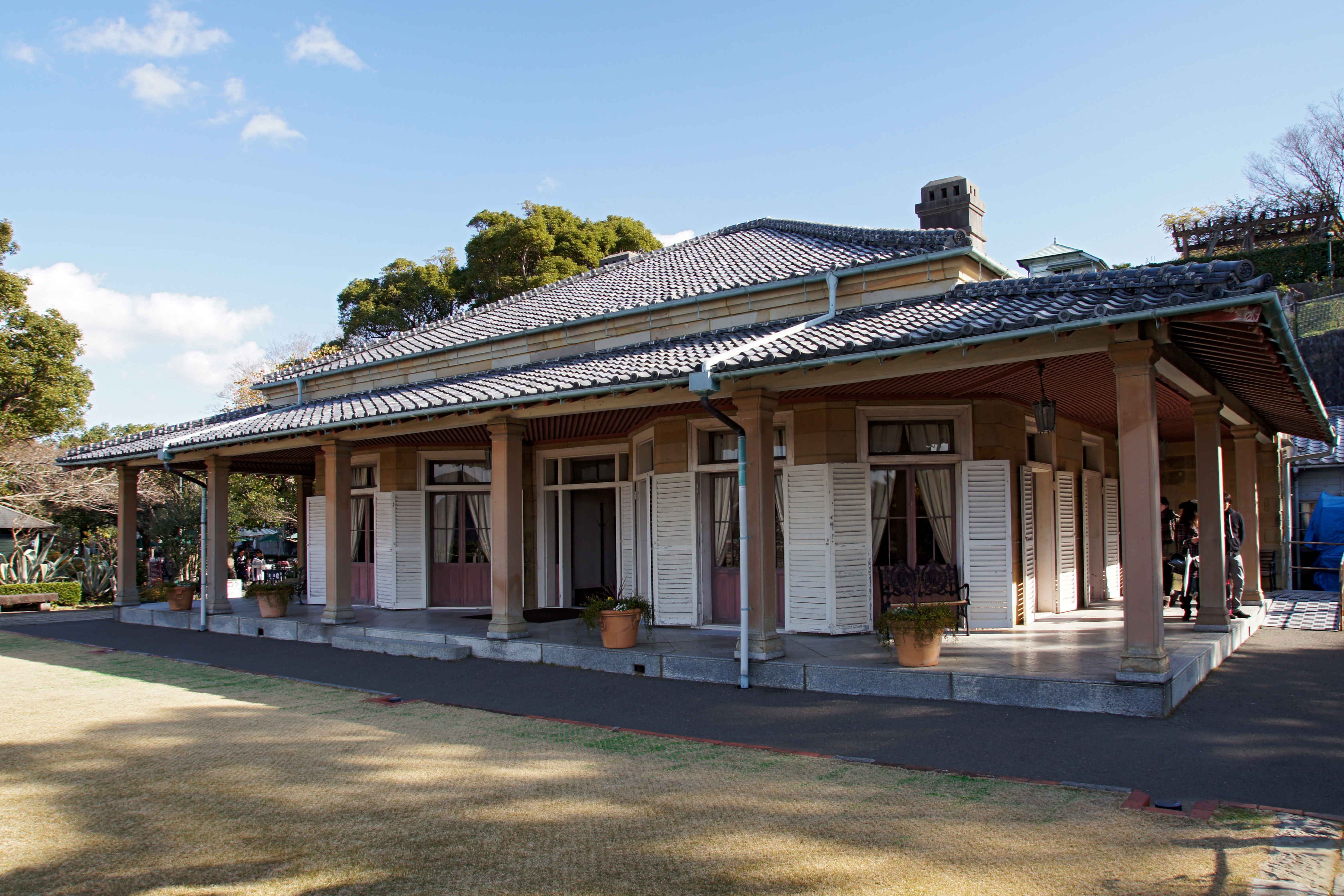 Ringer House in Glover Garden, Nagasaki, Nagasaki prefecture, Japan